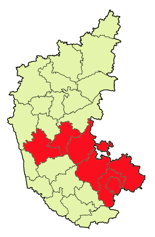 Locator map of Bengaluru division, Karnataka, India